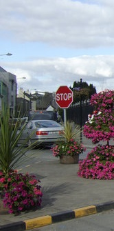 Athy Road in Carlow (looking northwards)